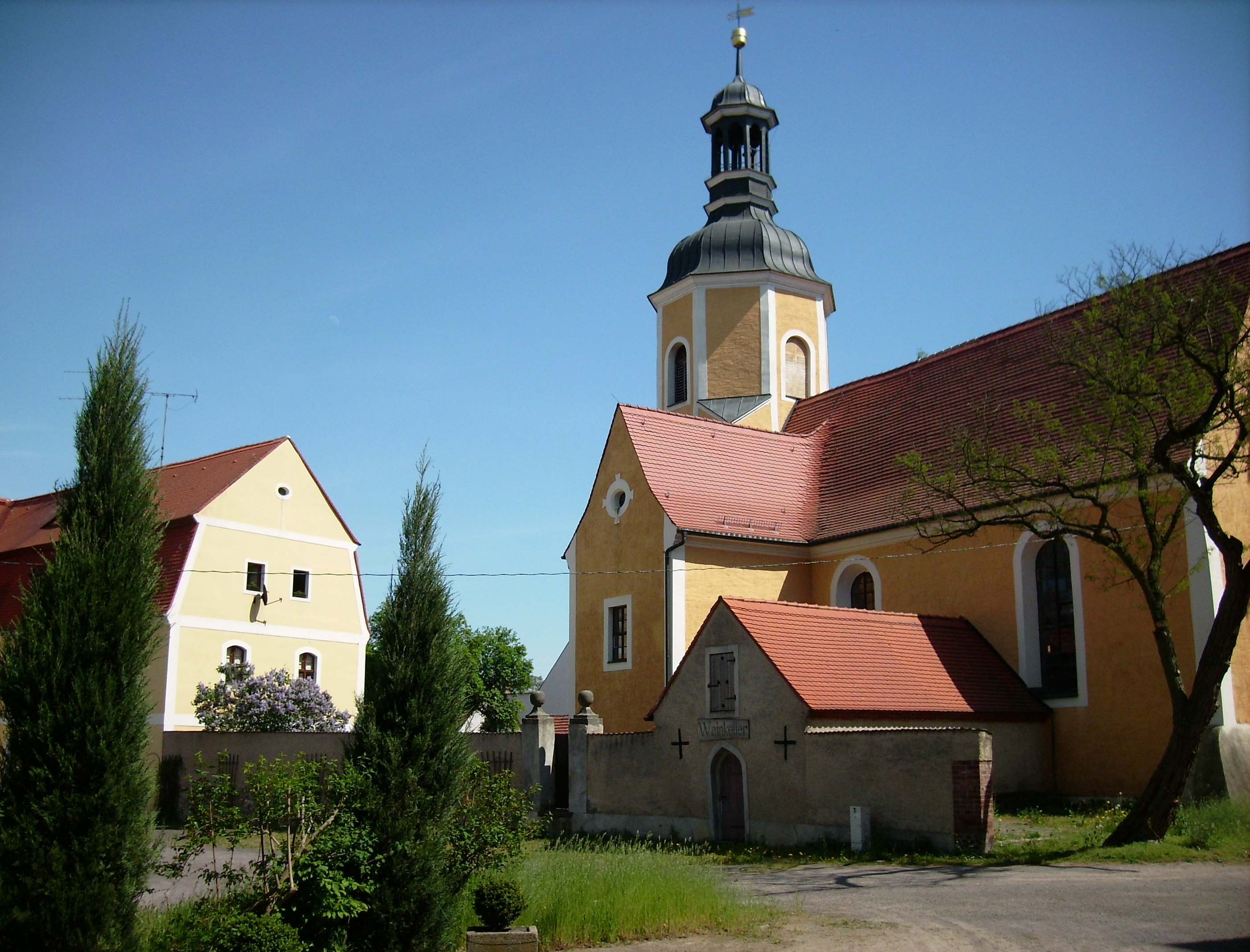 Church in Kühnitzsch (Falkenhain, Leipzig district, Saxony)